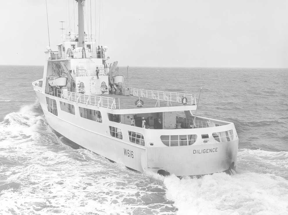 "210-foot USCGC DILIGENCE (WPC-616). Sea trials. Port, stern, Gulf of Mexico."